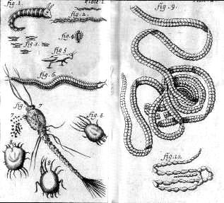 Illustrations from the English translation of Nicolas Andry's An Account of the Breeding of Worms in Human Bodies, London, 1701